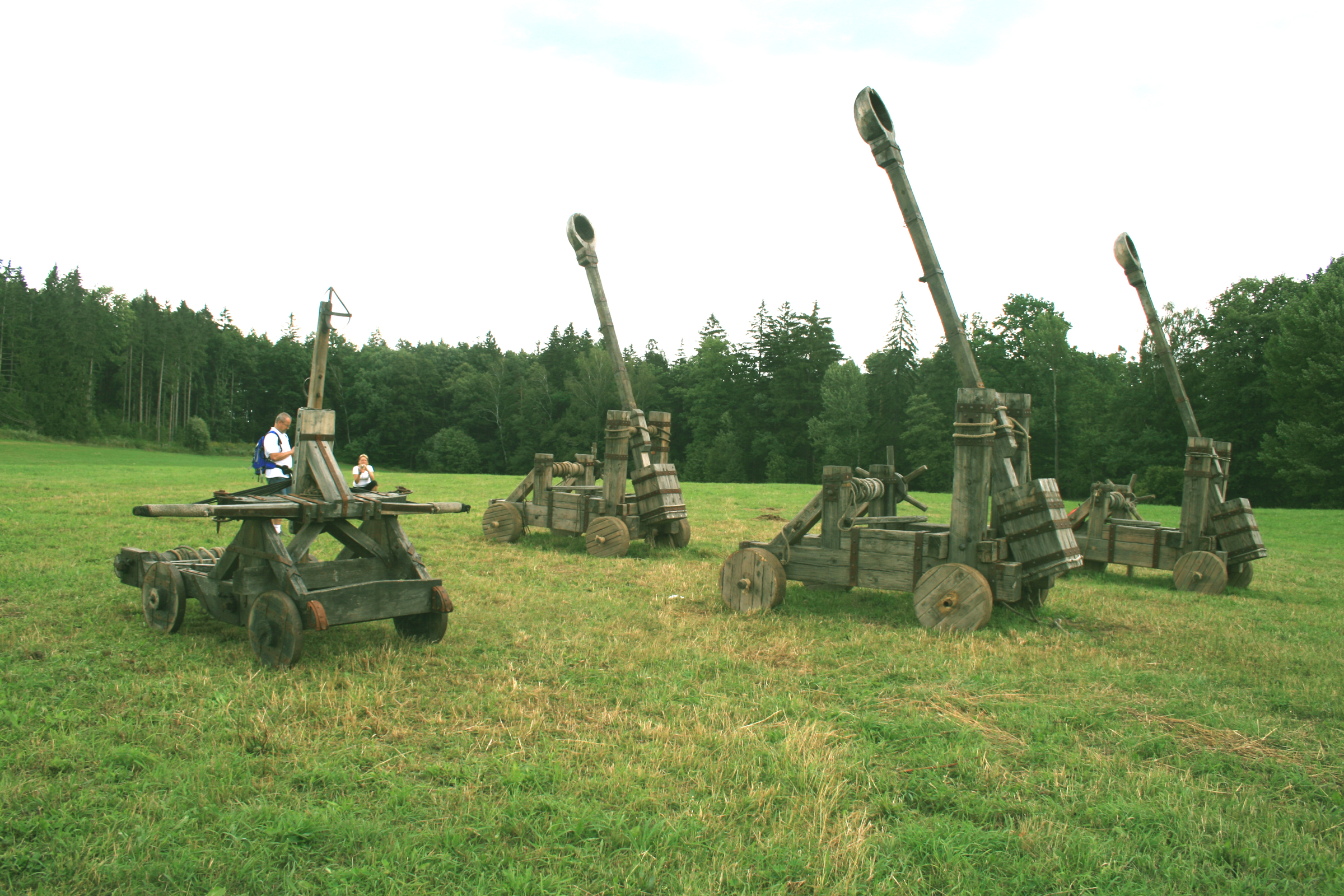 Reply of medieval war machines in front of fortress Cuknštejn near Terezka waley not far from Nové Hrady, South Bohemia, Czech Republic